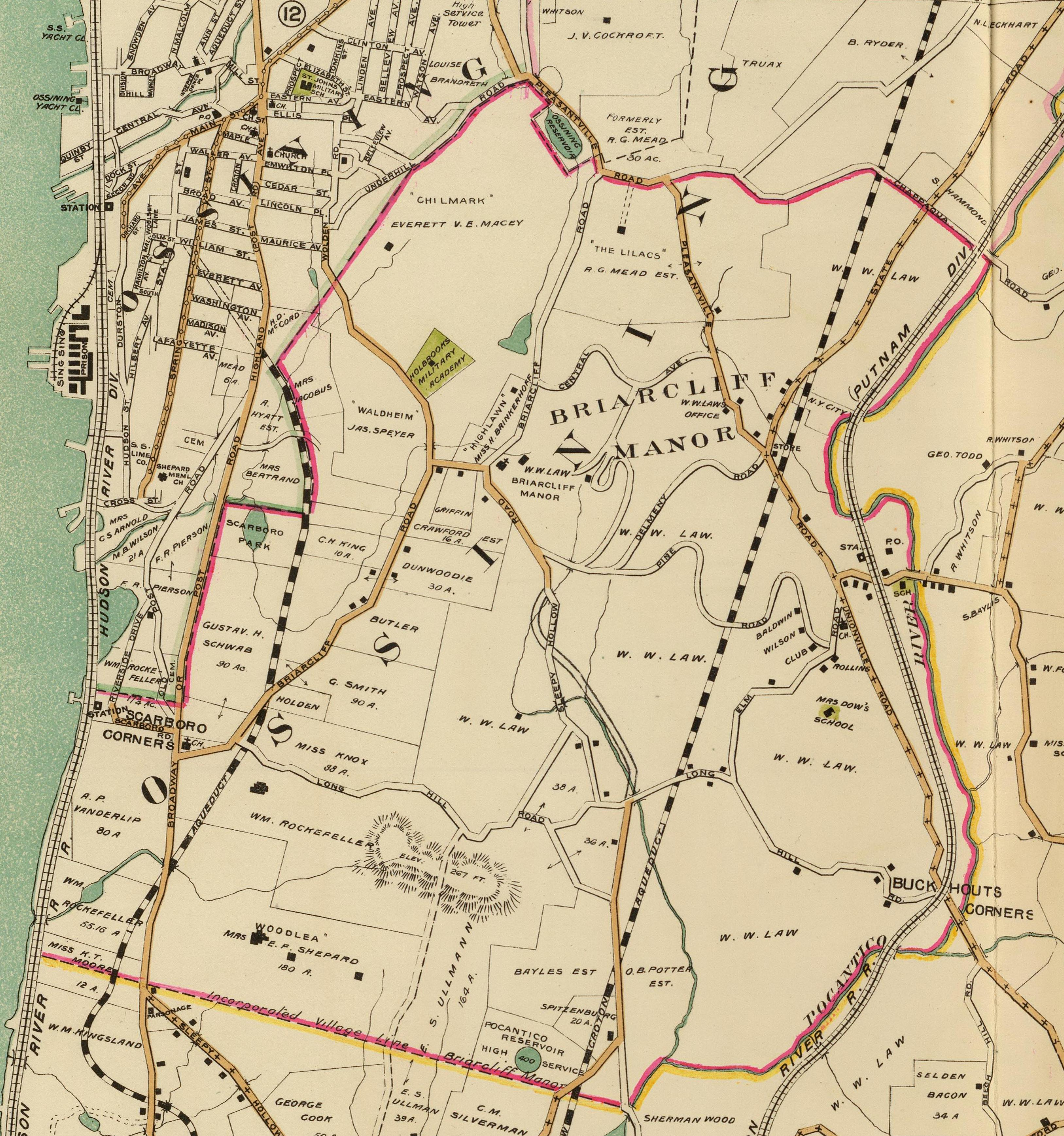 Map of Briarcliff Manor, New York, United States in 1908